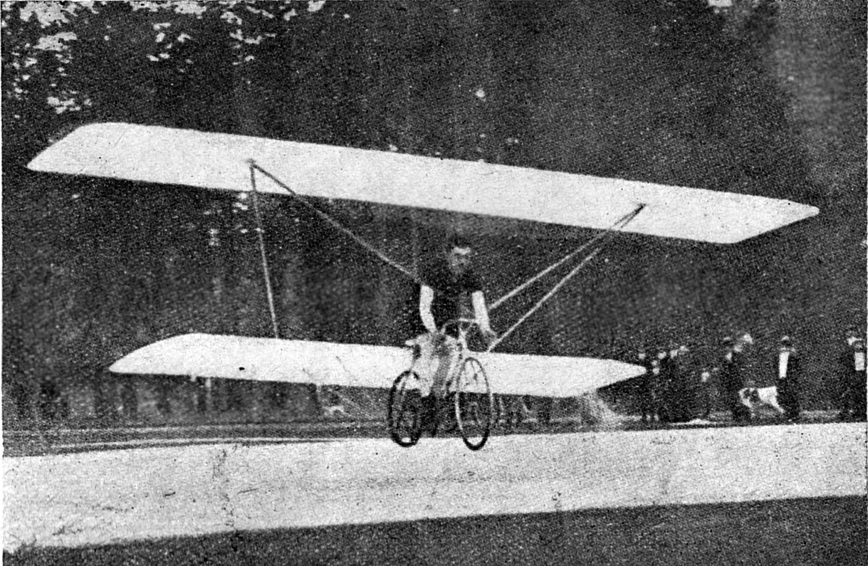 Gabriel Poulain on his record-setting run, which earned him the Peugeot Prize for human-powered flight on July 9, 1921. (Source: Flugsport, Aug. 17, 1921)